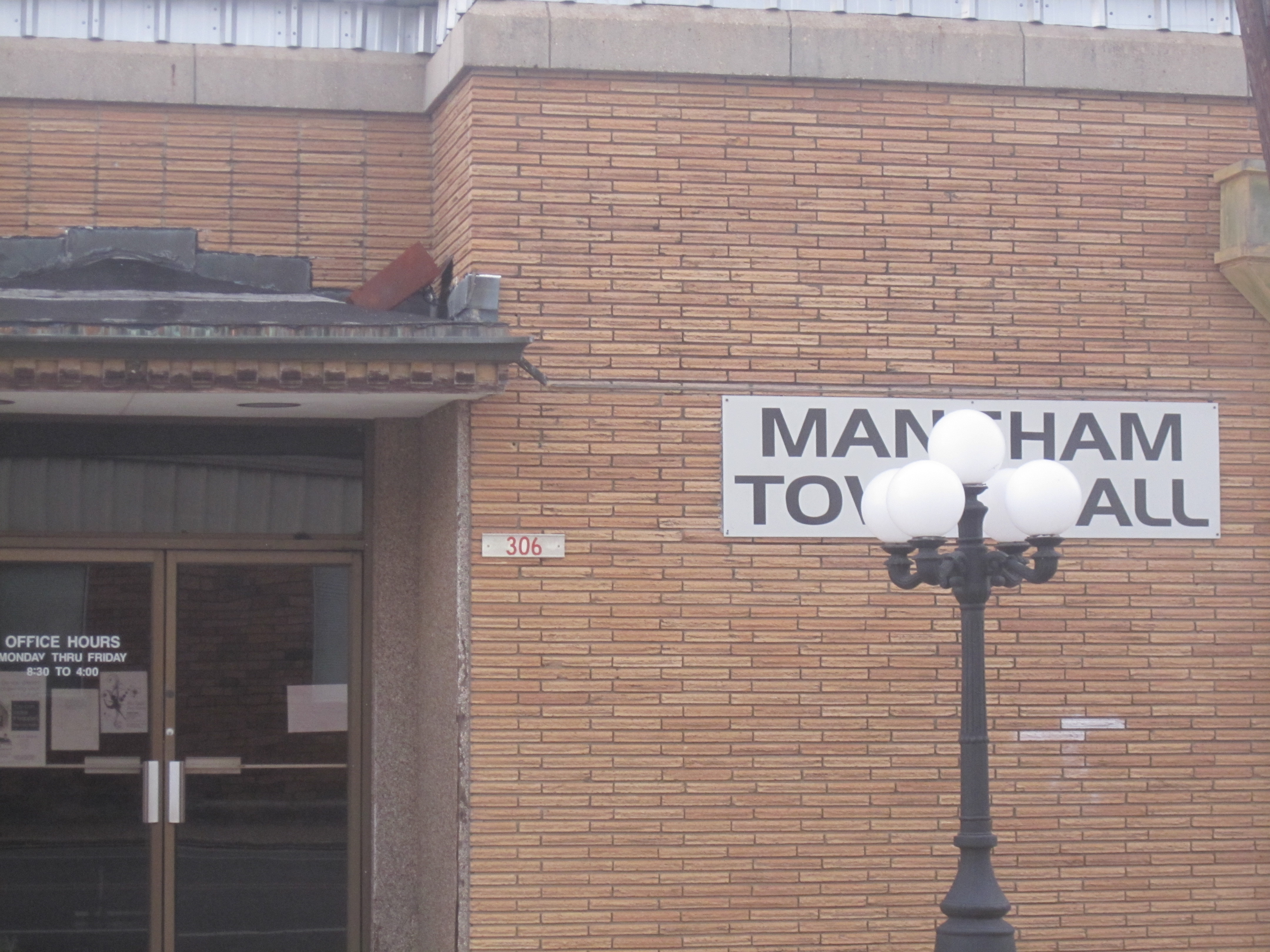 I took photo with Canon camera in Mangham, LA.